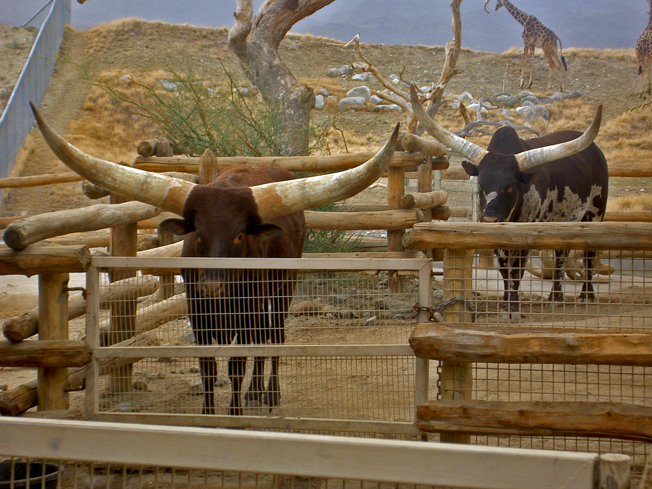 Ankole Watusi cattle at the Living Desert Museum in California Dec 2008 Bull on the right is the father of the 4 year old bull to the left.